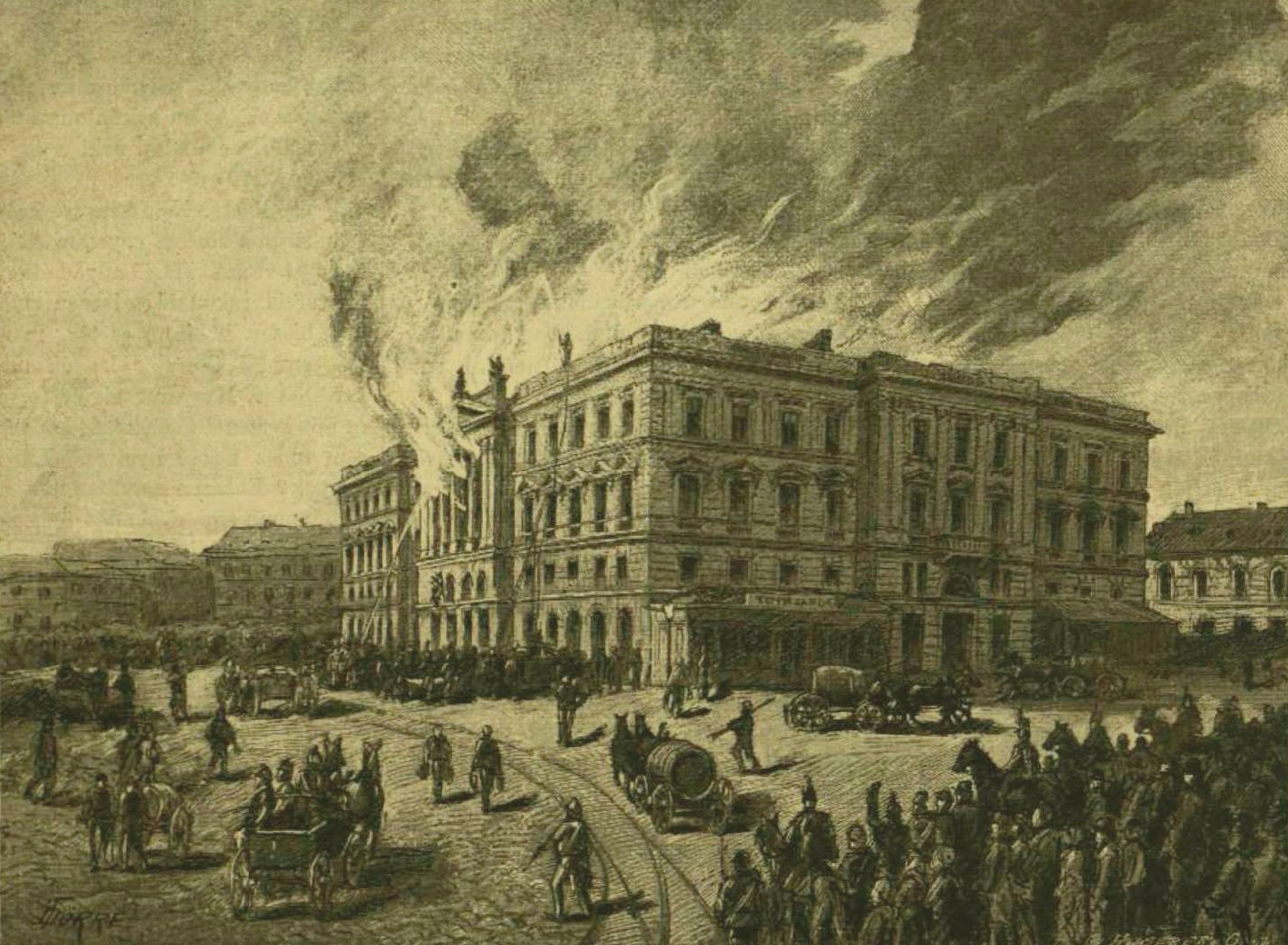 Arad Theatre on Fire (1883)